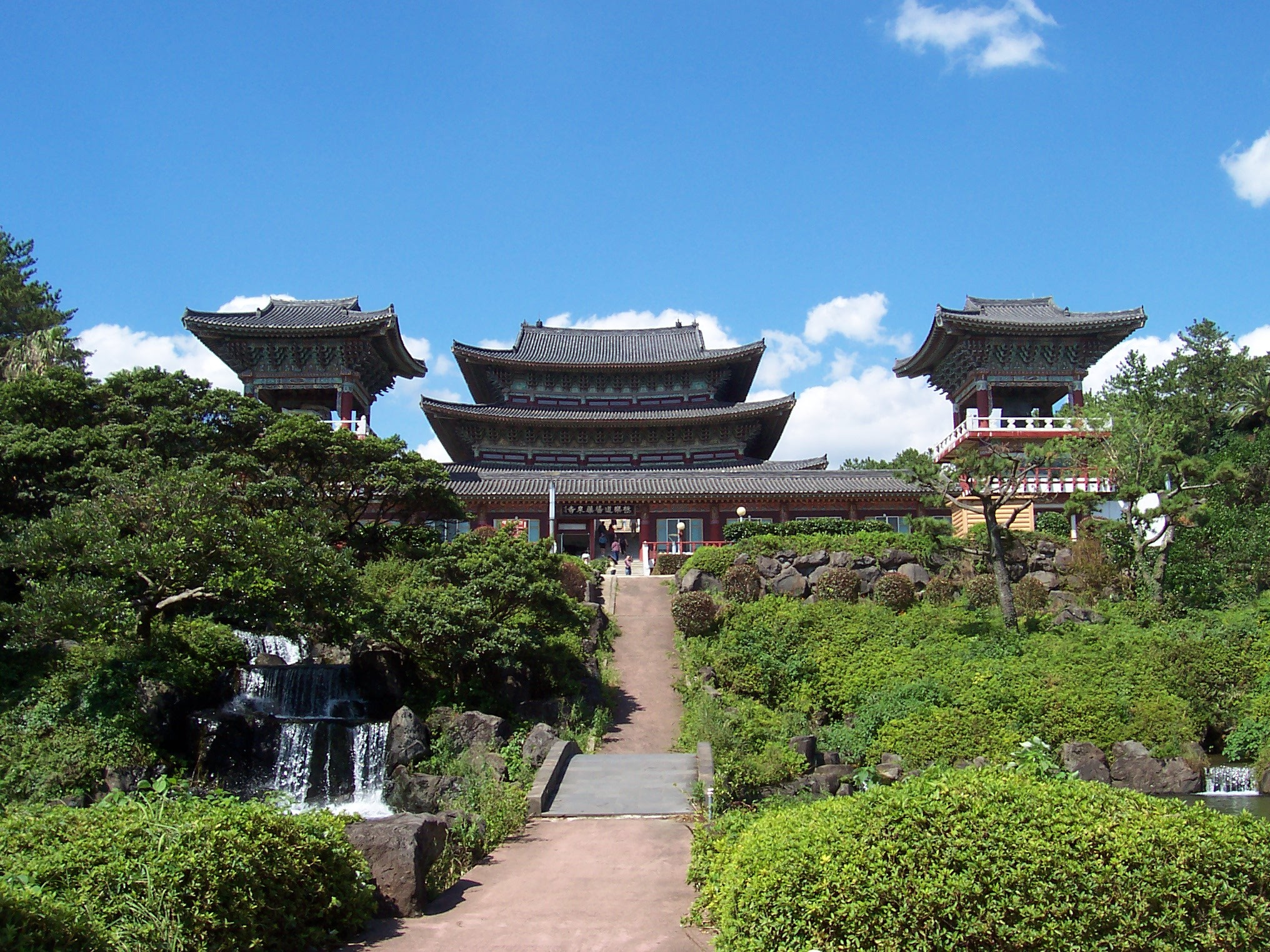 Yakchunsa Temple, Jeju, South Korea